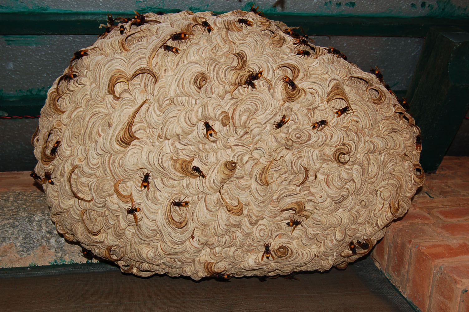 An active nest of Vespa tropica found attached to the wall of old MCBL building in IISc campus